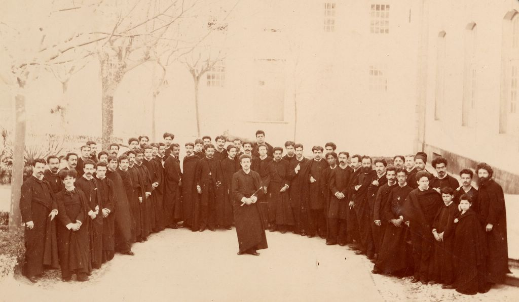 Orfeon de Arroyo